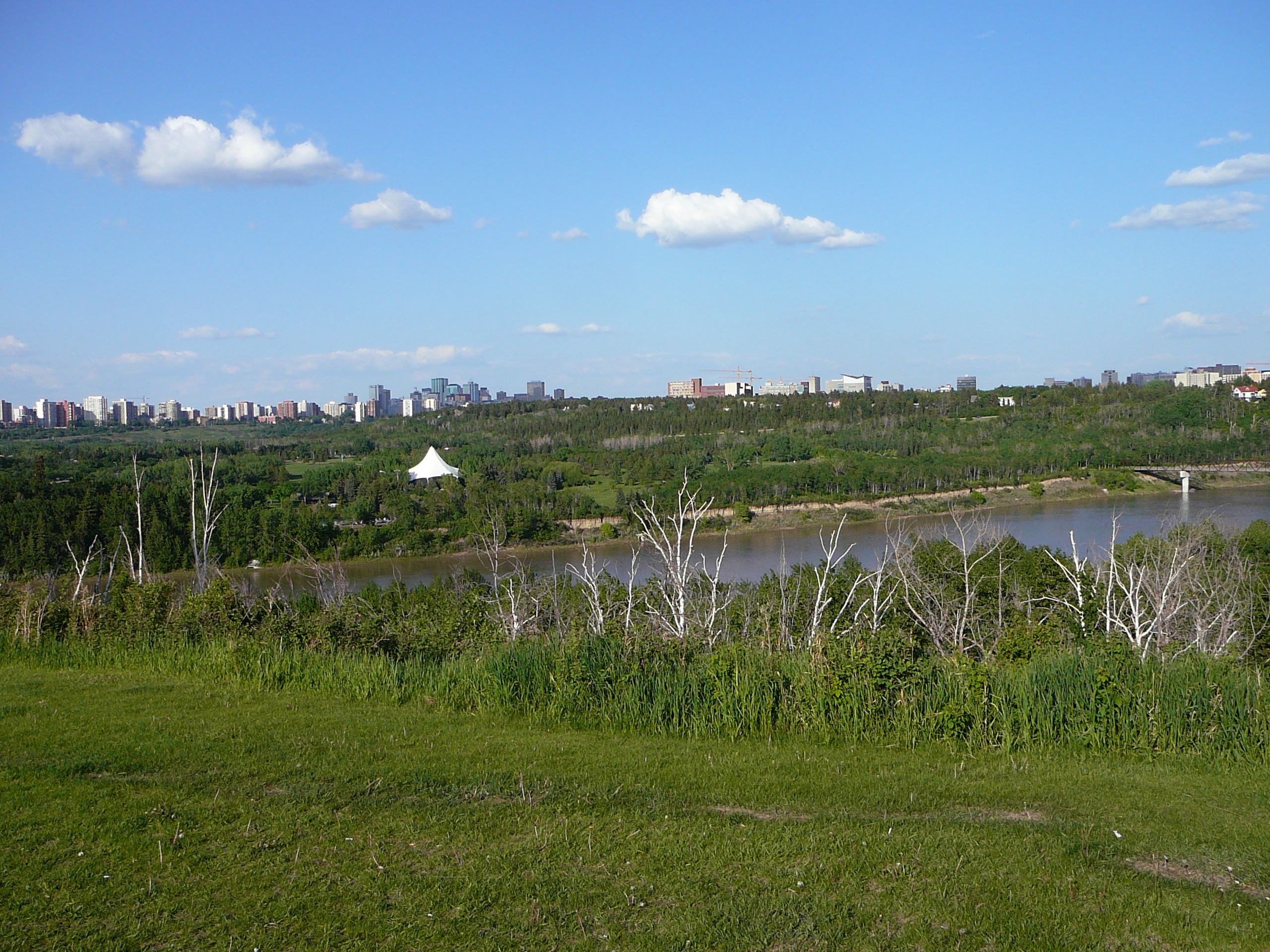 North Saskatchewan River Valley as seen from the Parkview neighbourhood in Edmonton, Canada